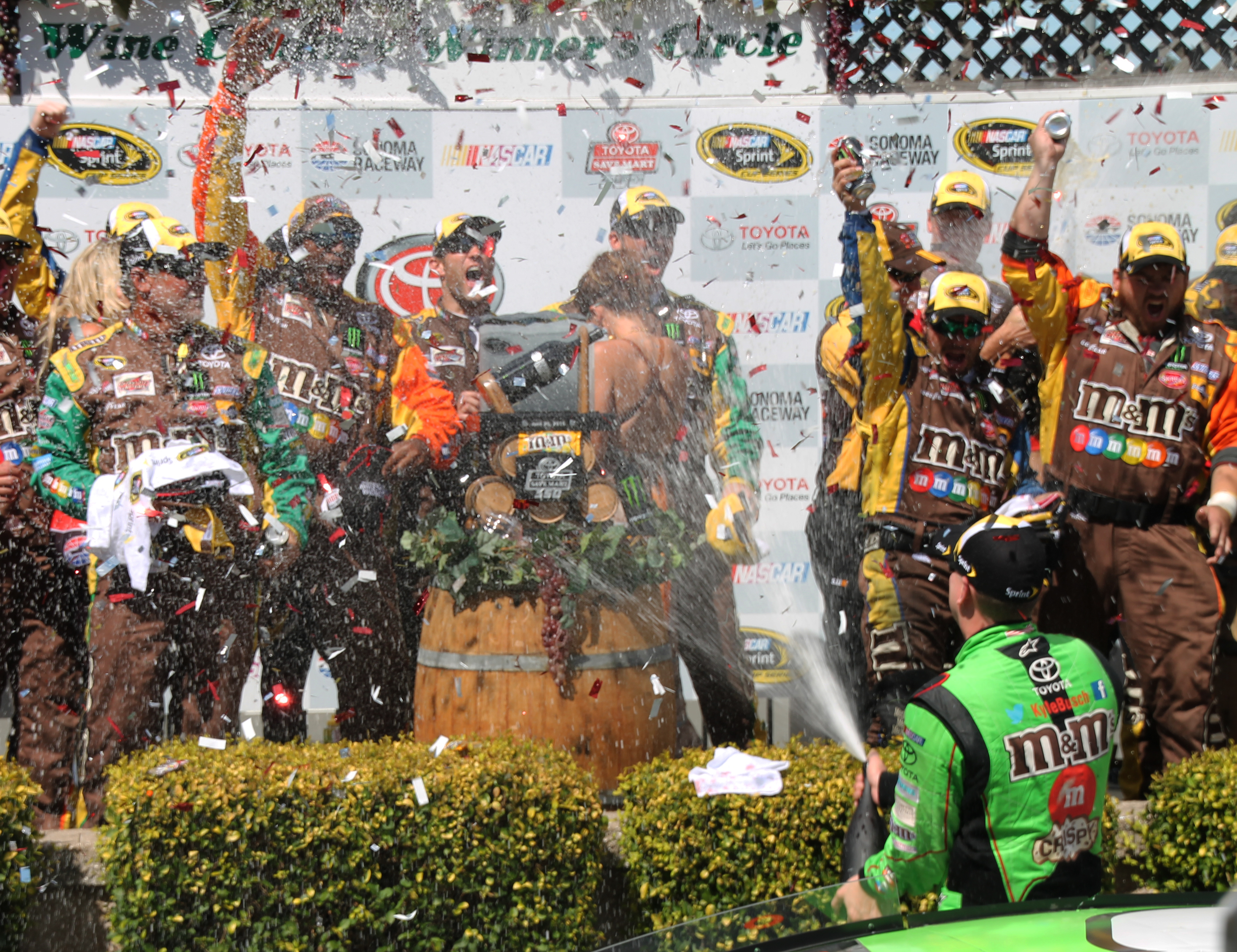 Kyle Busch sprays Korbel sparkling wine at his team after winning the 2015 Toyota/Save Mart 350 in Sonoma, California